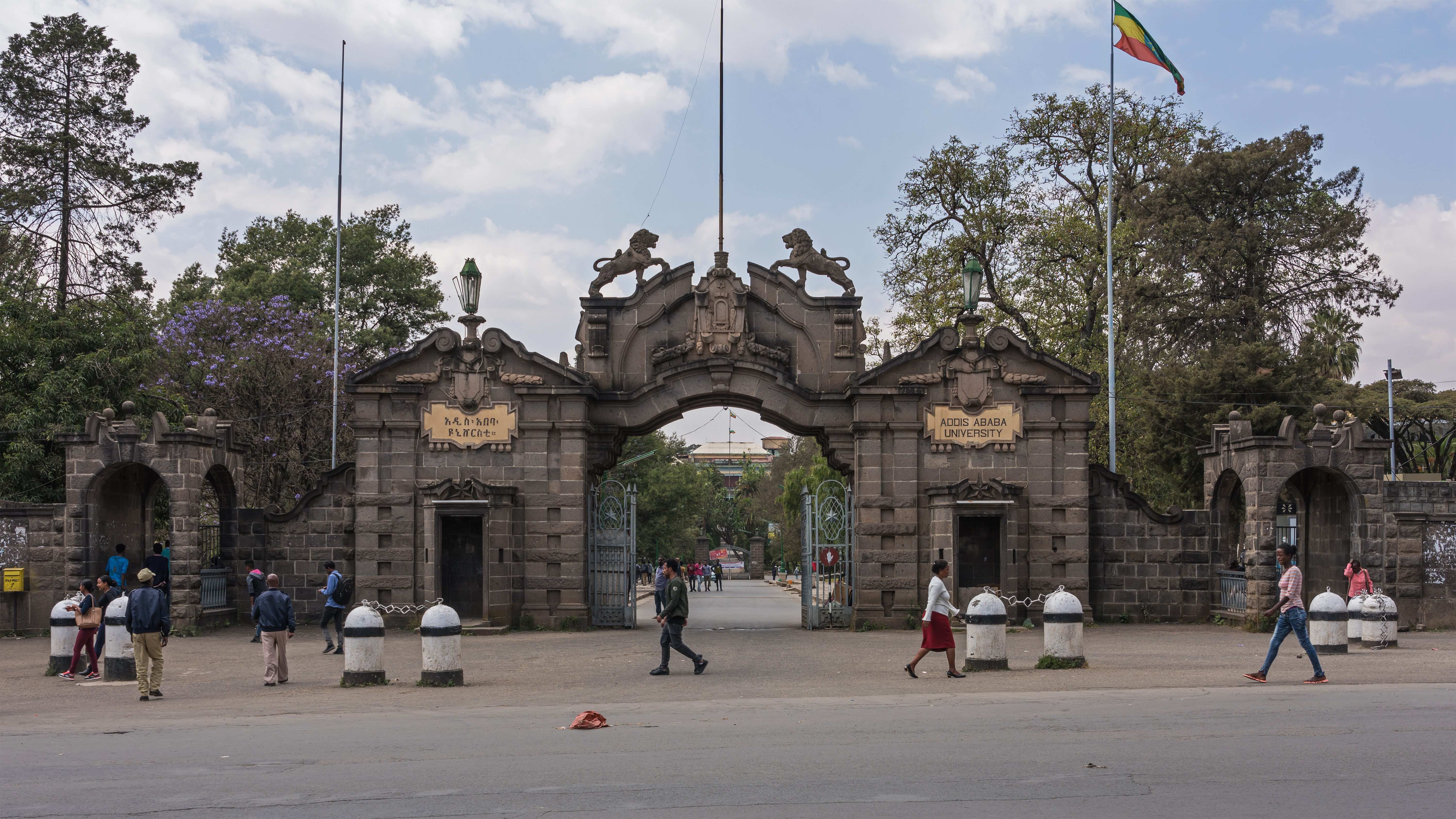 Gate of the University in Addis Ababa, Ethiopia